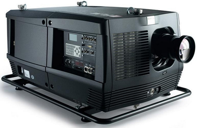 Barco projector